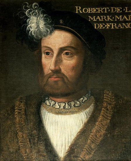 PWI261834 Robert de la Marck (1491-1537); (add. info.: Duc de Bouillon, Marechal de France; Marshal of France); Peter Willi; French, out of copyright